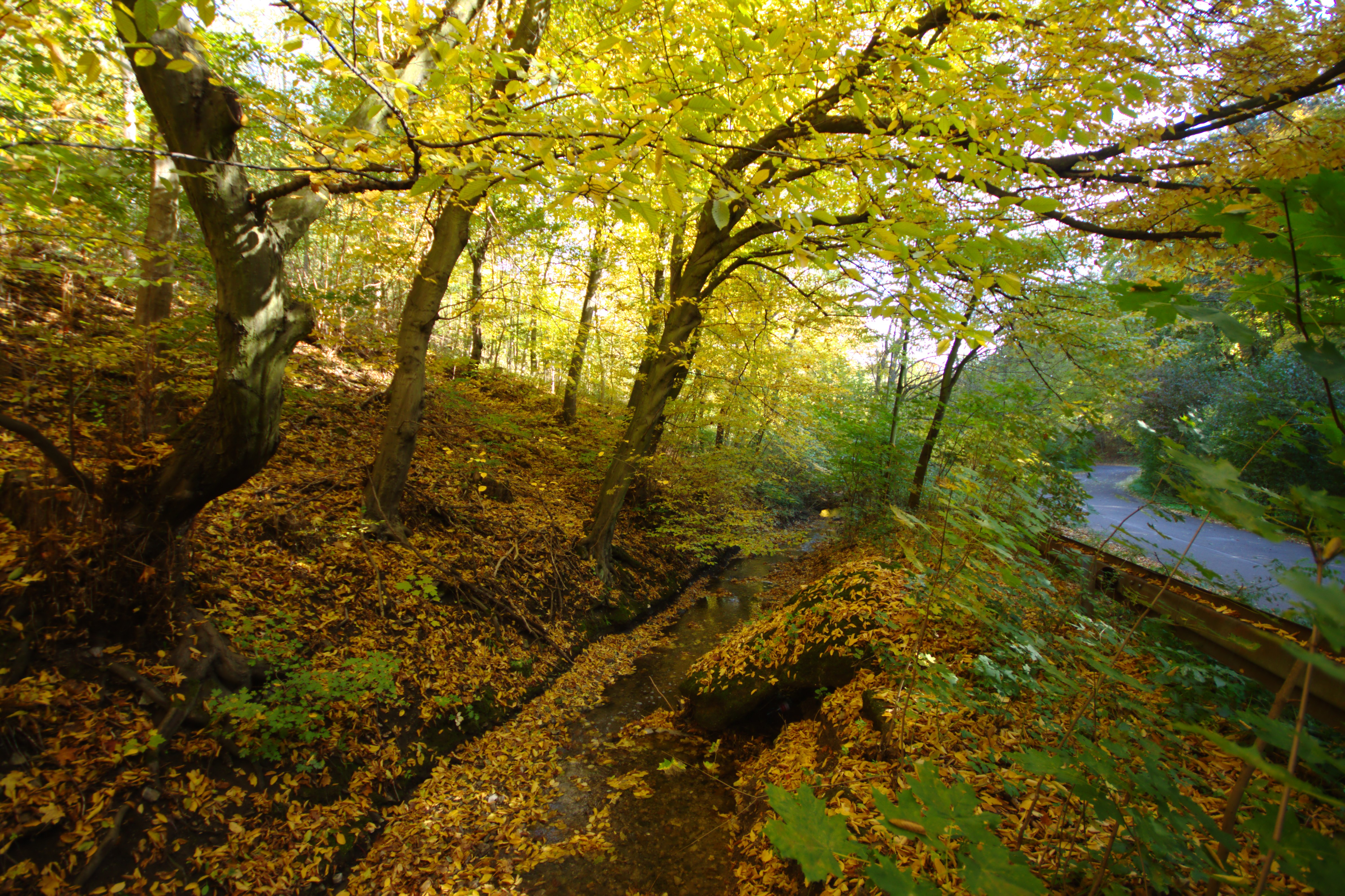 An autumn in Prokopské údolí valley, Prague, CZ